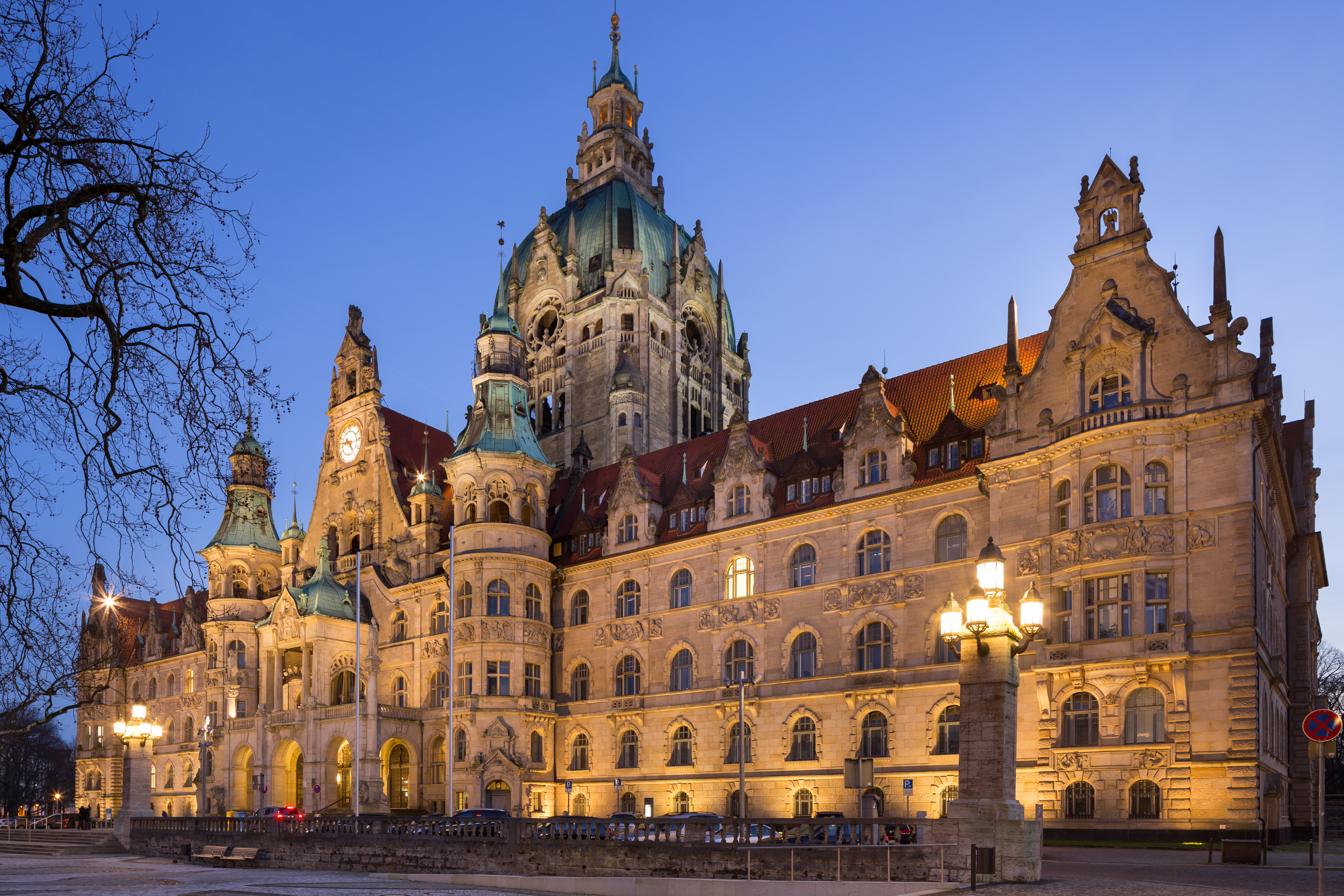 Hannover's new town hall located at Friedrichswall in Mitte quarter of Hannover, Germany.